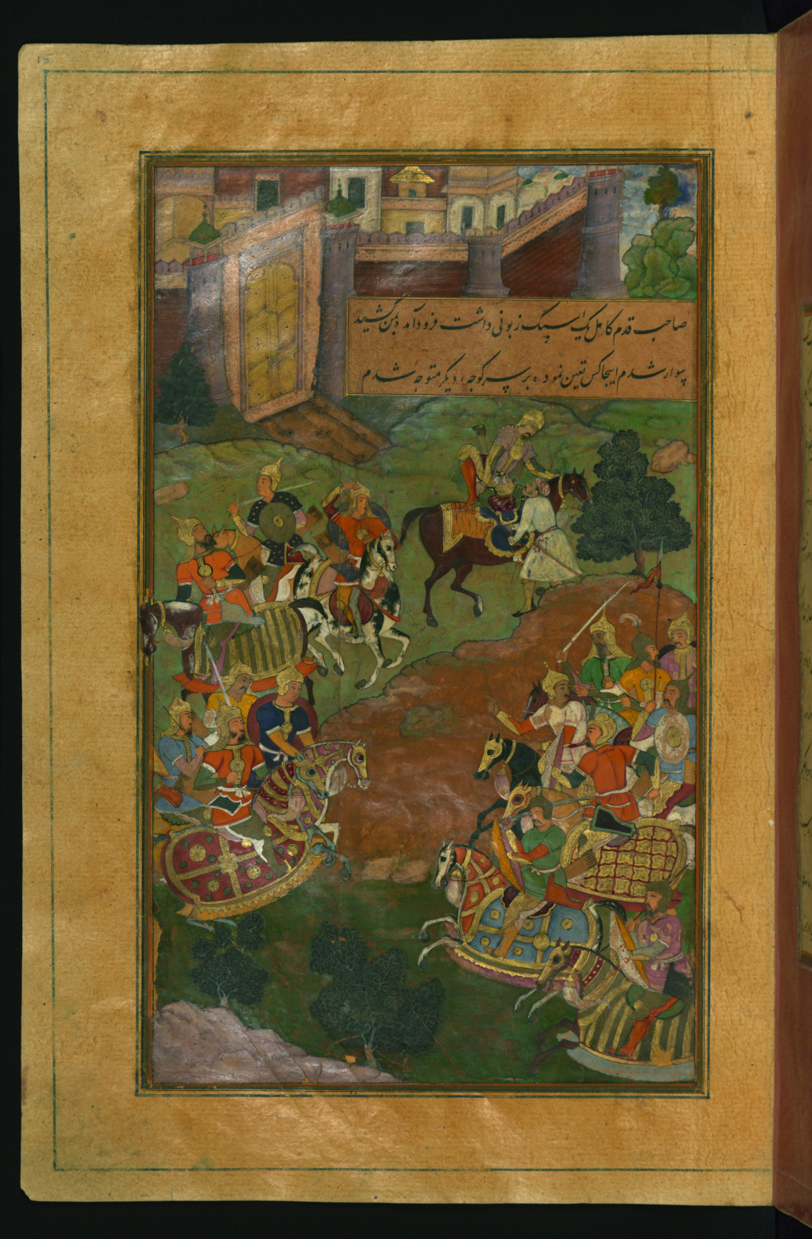 Illustrations from the Manuscript of Baburnama (Memoirs of Babur) - Late 16th Century Bāburnāma is the memoirs of Ẓahīr ud-Dīn Muḥammad Bābur (1483-1530), founder of the Mughal Empire and a great-great-great-grandson of Timur. It is an autobiographical work, originally written in the Chagatai language, known to Babur as "Turki" (meaning Turkic), the spoken language of the Andijan-Timurids. Because of Babur's cultural origin, his prose is highly Persianized in its sentence structure, morphology, and vocabulary,and also contains many phrases and smaller poems in Persian. During Emperor Akbar's reign, the work was completely translated to Persian by a Mughal courtier, Abdul Rahīm, in AH (Hijri) 998 (1589-90). These Paintings, being a fragment of a dispersed copy, was executed most probably in the late 10th AH /16th CE century. It contains 30 mostly full-page miniatures in fine Mughal style by at least two different artists. Another major fragment of this work (57 folios) is in the State Museum of Eastern Cultures, Moscow.